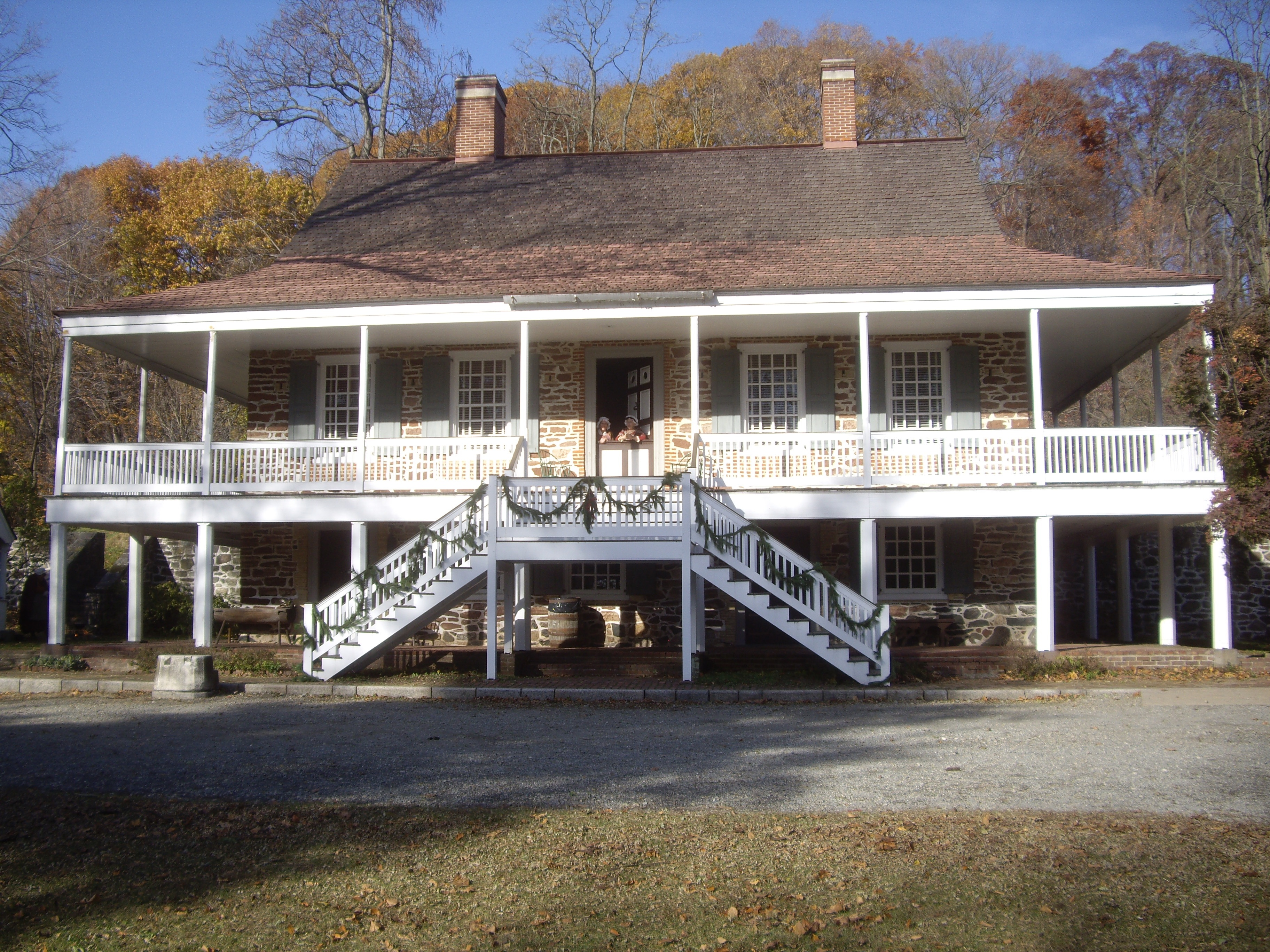 Van Cortland Manor, Croton on Hudson, NY